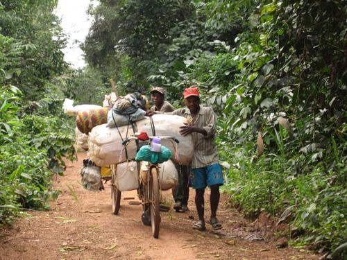 Des marchands tolekistes entre Epulu et Mambasa, 2005 Two Toleki merchants between Epulu and Mambasa